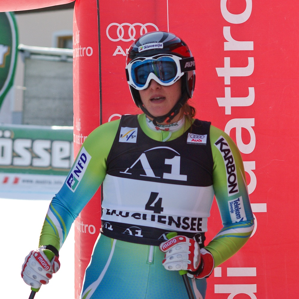 Slovenian alpine skier Petra Robnik after the downhill run of the super combined in Altenmarkt-Zauchensee (Austria) on 17 January 2009.